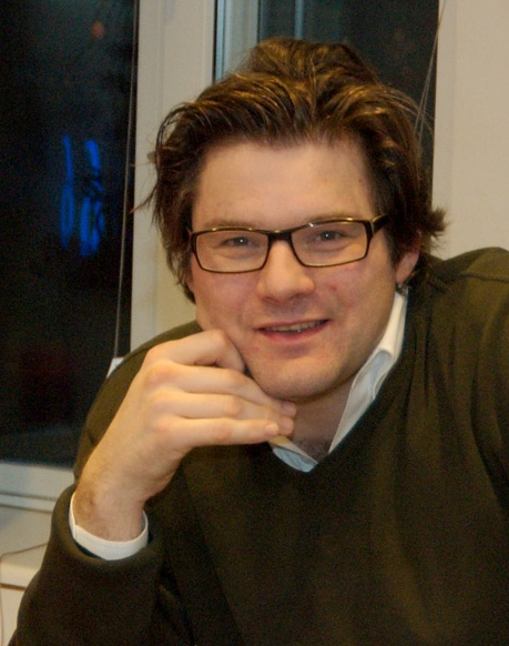 Jan Helin, chief editor of Aftonbladet.